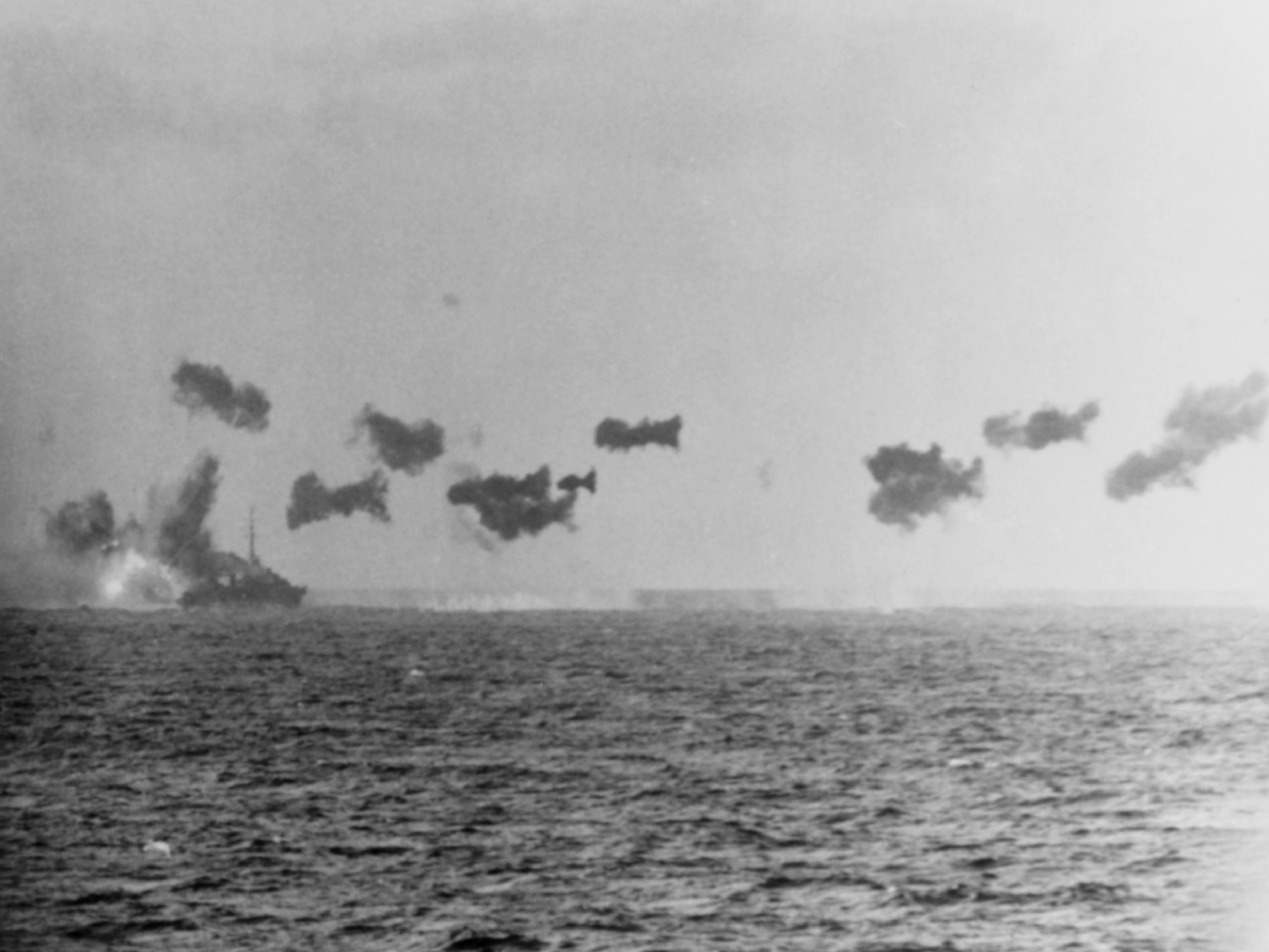 The Royal Australian Navy destroyer HMAS Arunta (I30) is near-missed by a kamikaze plane, while en route to the Lingayen landings, 5 January 1945. The ships, units of Task Force 77, were then west of Luzon.